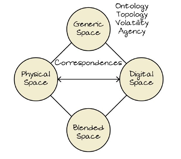 Conceptual Blending in Mixed Reality Spaces